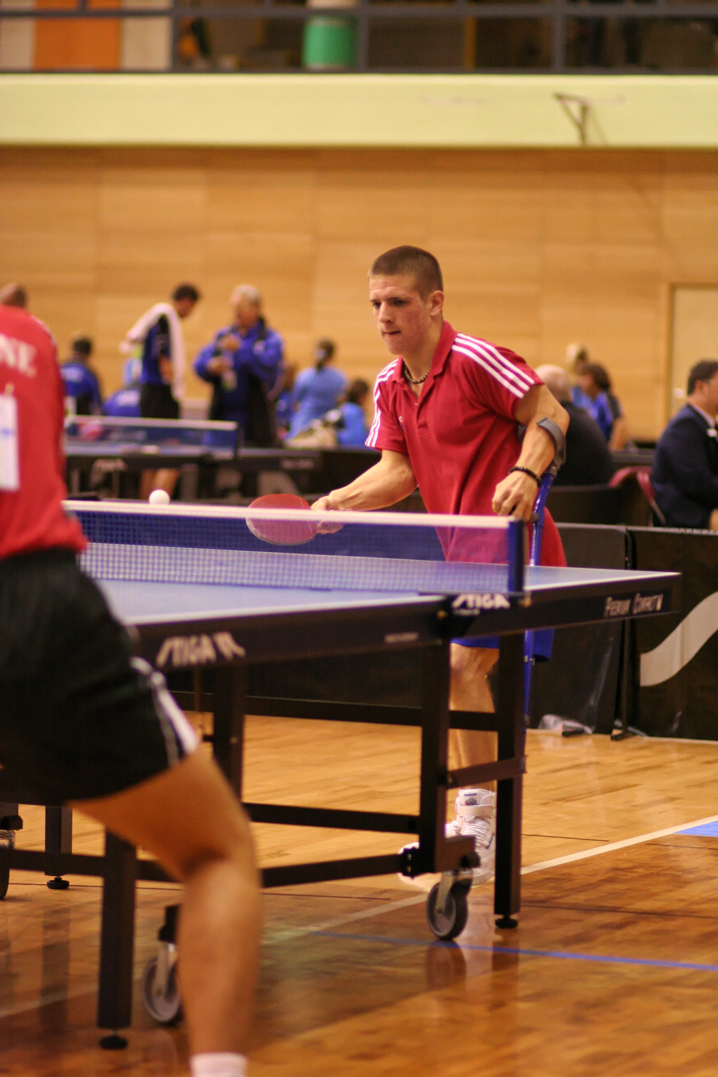 David Wetherill (Great Britain)